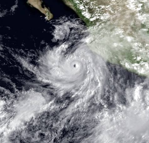 Image of Hurricane Hilary of the 1993 Pacific hurricane season on August 20, 1993.